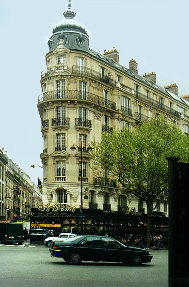 took the picture myself, last summer